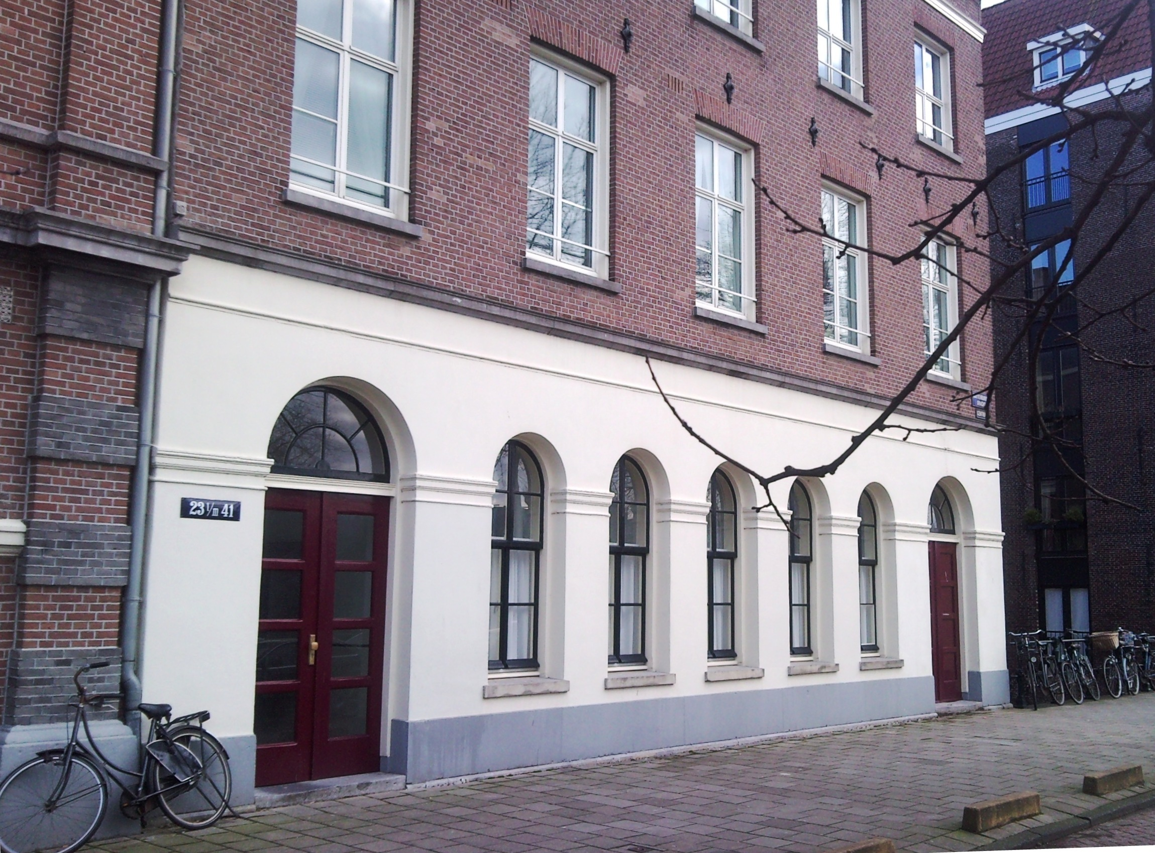 The building located at the Kattenburgergracht in Amsterdam that served as police station during the first five seasons of Dutch TV series Baantjer.